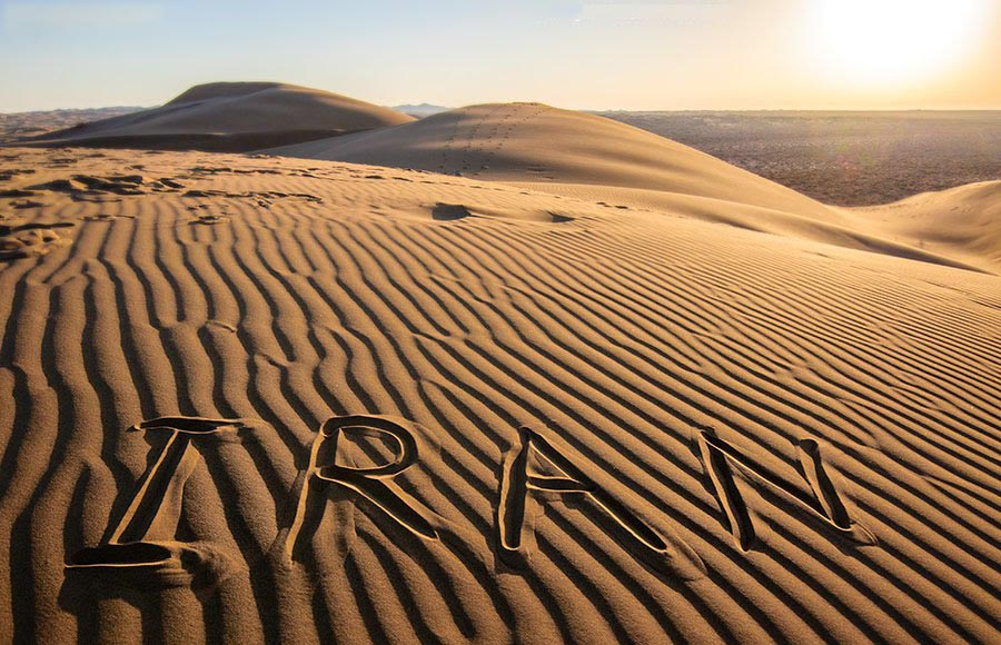 Lovely Maranjab Desert in Isfahan Province.